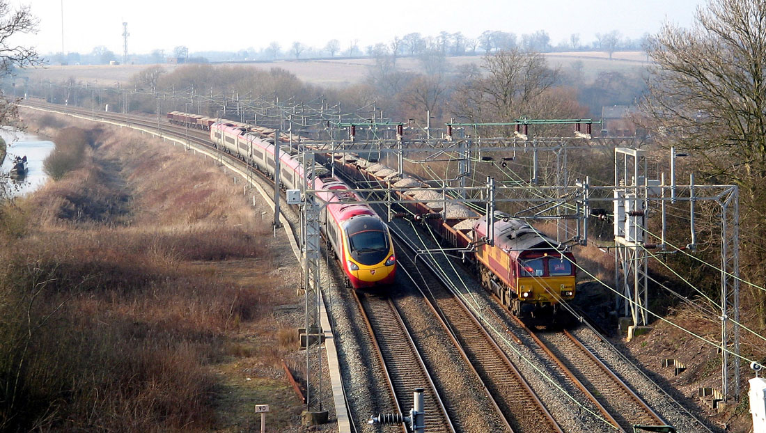 A Virgin Trains Pendolino and EWS freight train on the West Coast Main Line in Warwickshire, England